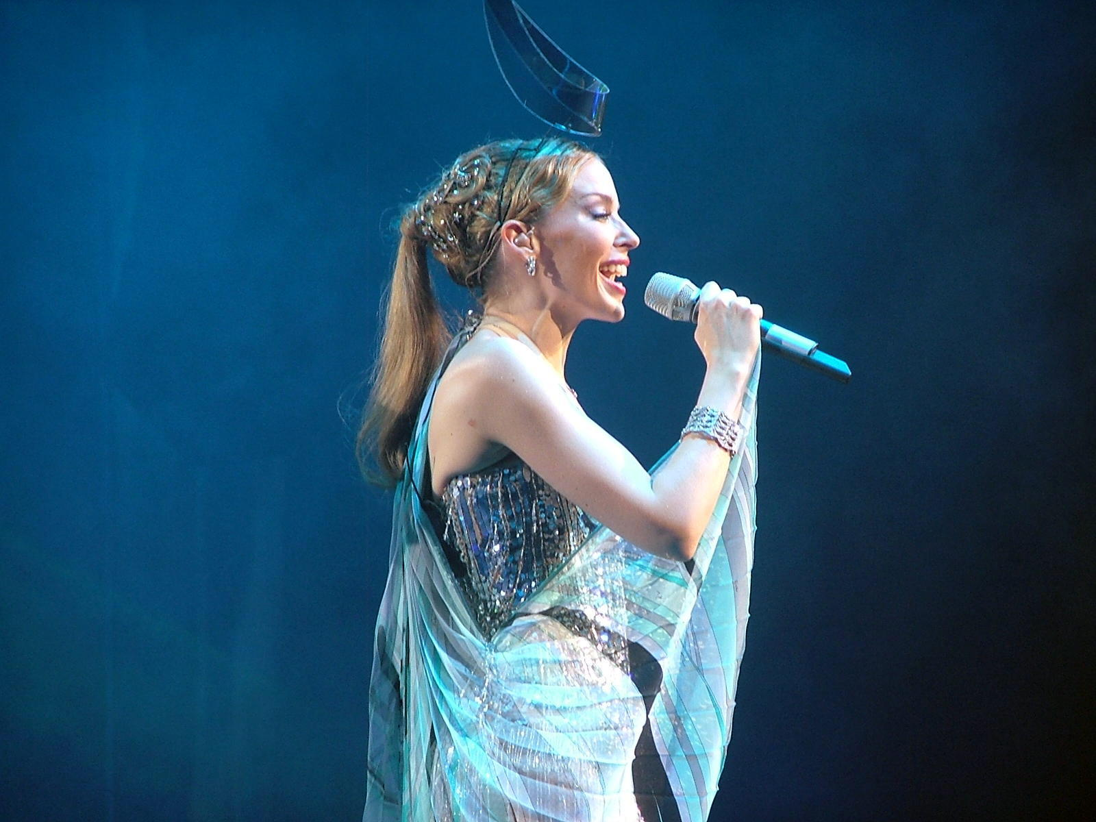 Kylie Minogue live in Paris - Can't get you out of my head - April 20th 2005